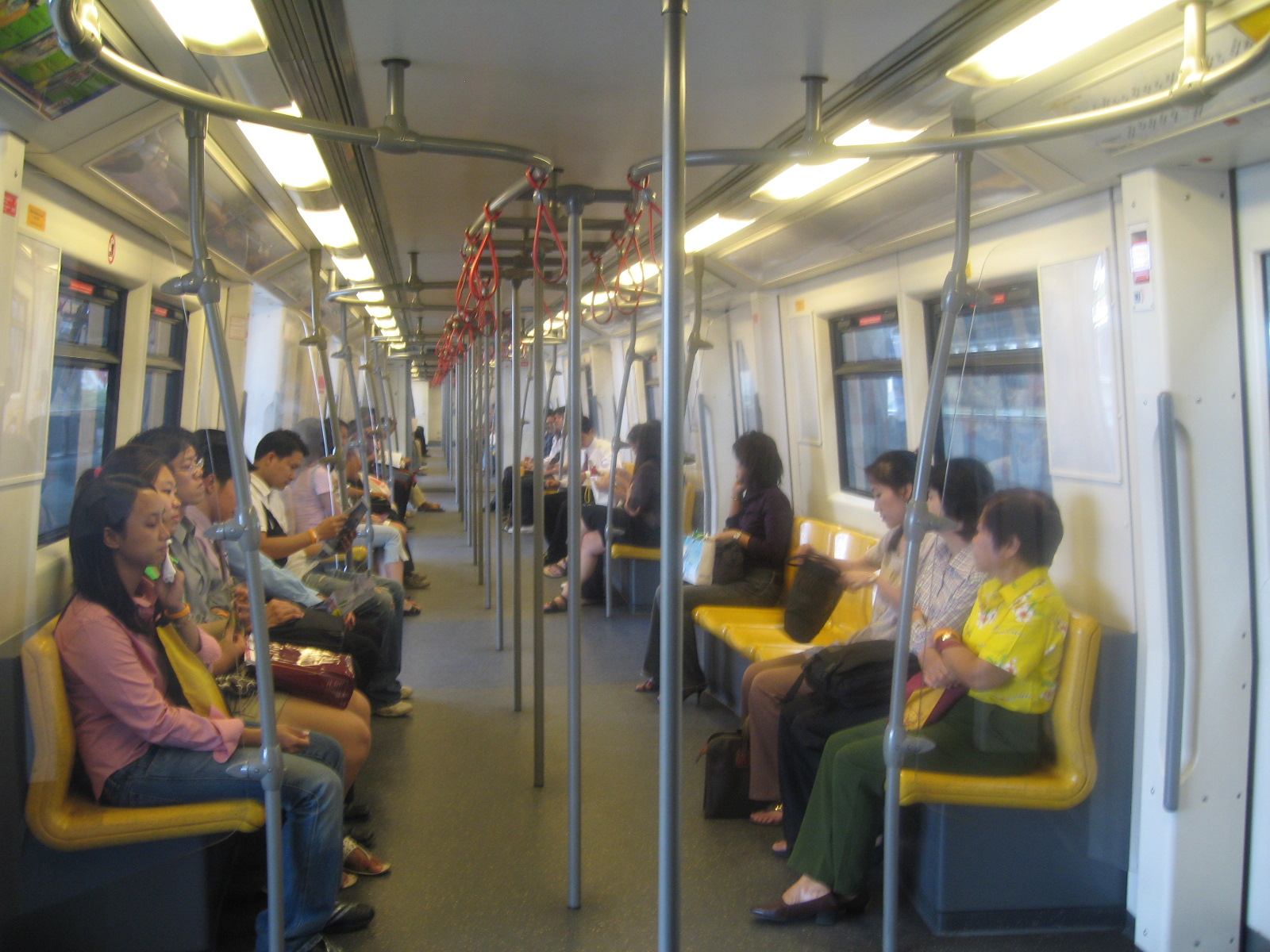 Bangkok Skytrain interior. Taken by Terence Ong in June 2006.